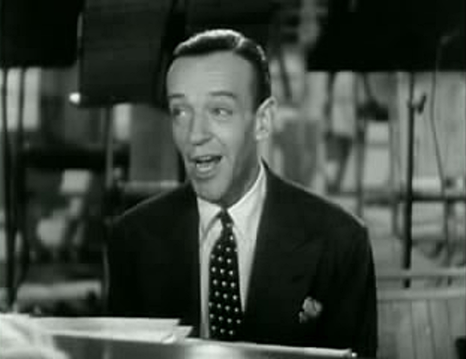 Movie screenshot of Fred Astaire singing "Poor Mr. Chisholm" (lyrics by Johnny Mercer, music by Bernie Hanighen) from Second Chorus